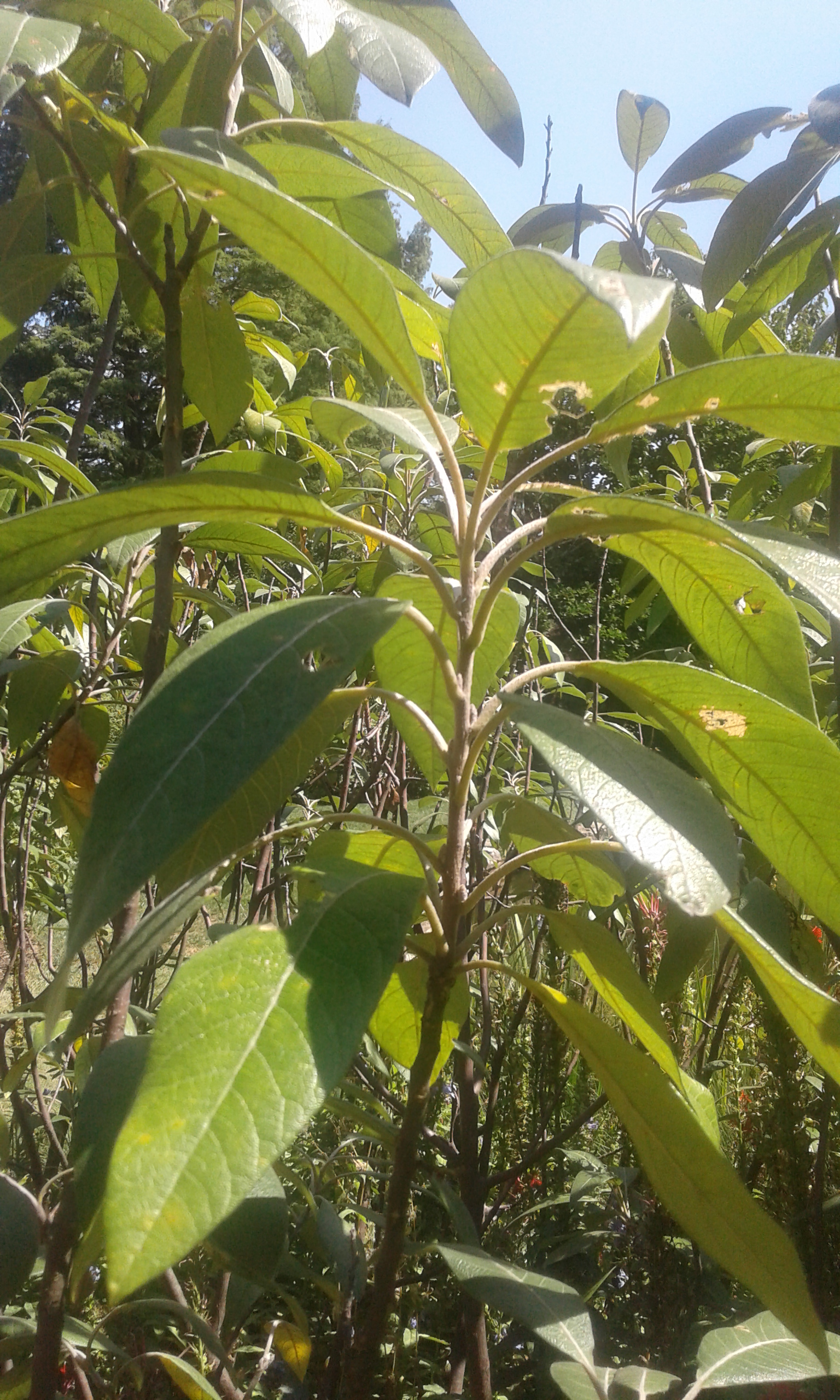 Leitneria floridana growing in the Dry Streambed at Missouri Botanical Garden